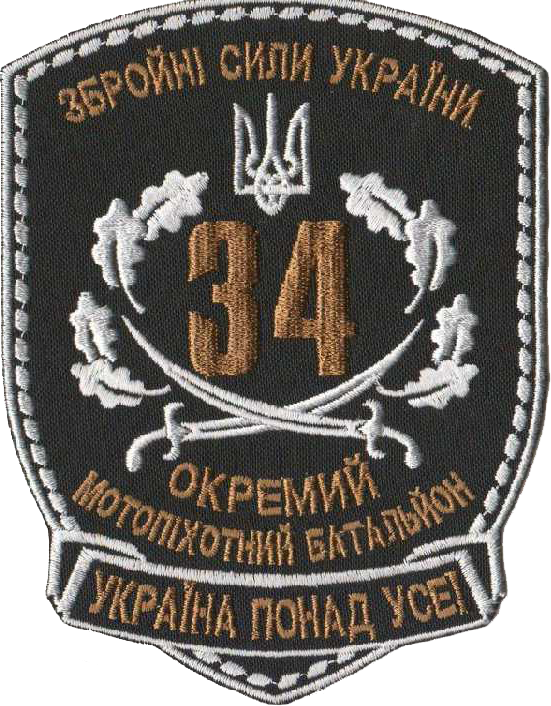 34th motorized infantry battalion SSI (Ukraine)